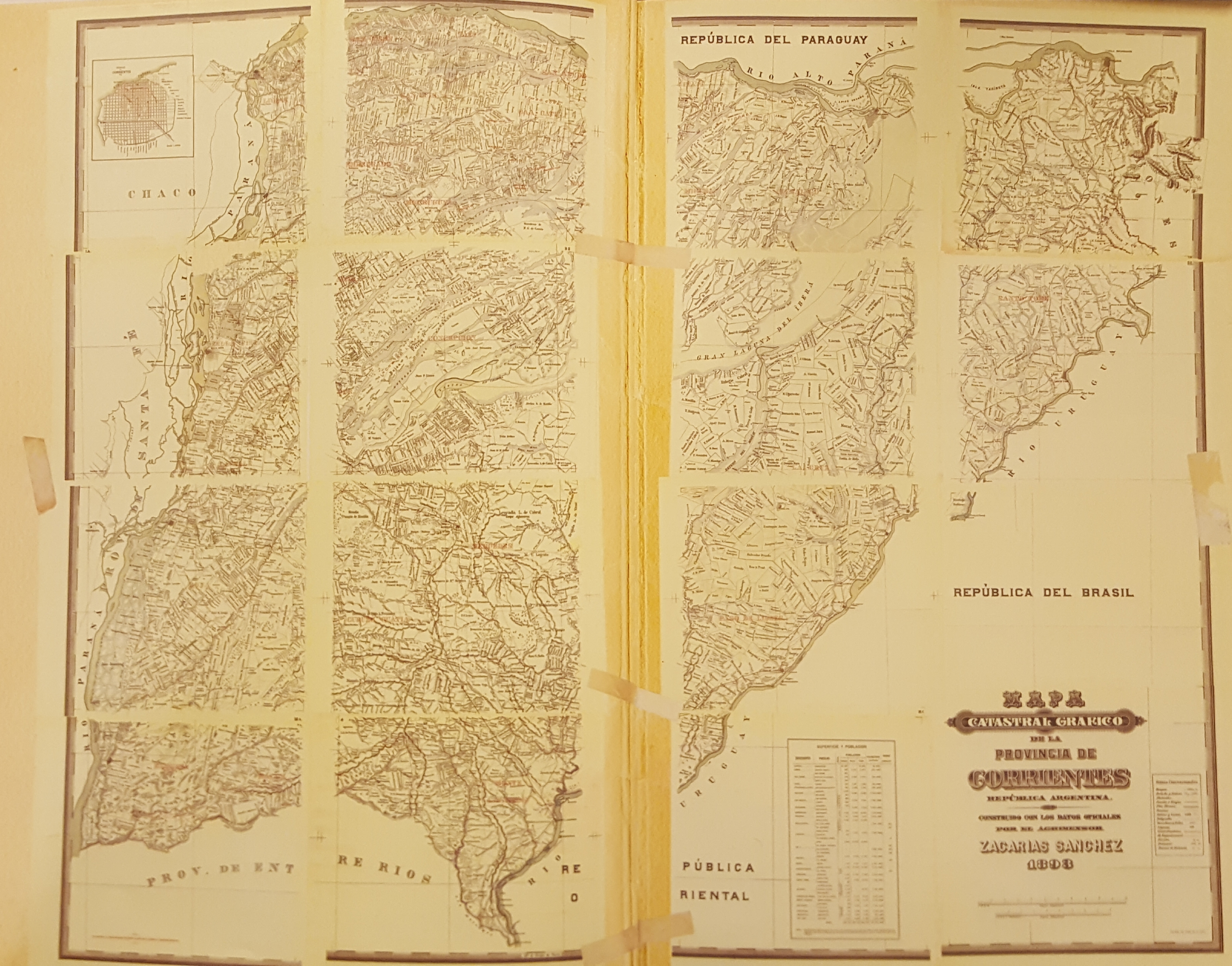 First Map of the Province of Corrientes, Argentina, made by the Engineer Geographer Zacarías Sánchez in 1893